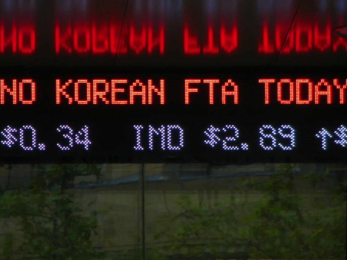 Channel 7: "NO KOREAN FTA TODAY" News Ticker at Martin Place, Sydney.